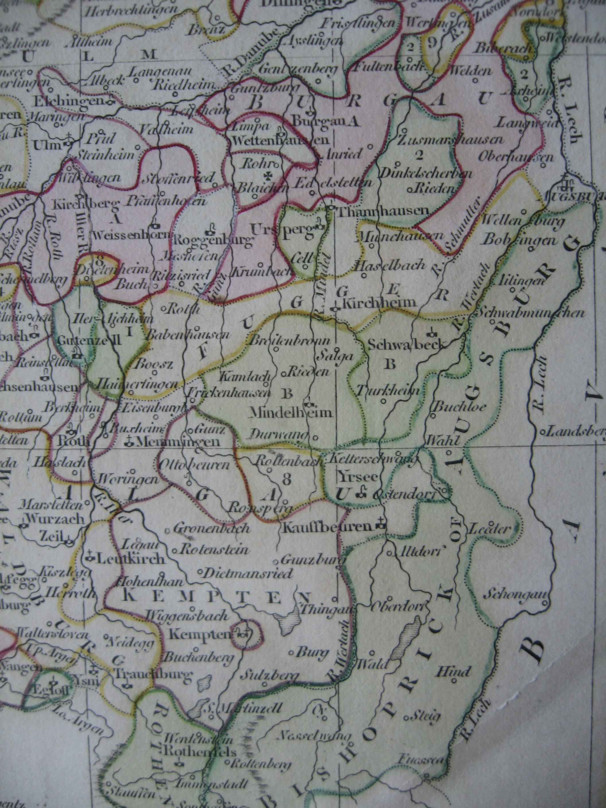 The territory of the Prince-Bishopric of Augsburg spread along the southwestern border of Bavaria. It included several enclaves ("2"). The Free Imperial City of Augburg at the northern end was totally independent of the Prince-Bishopric. The Diocese of Augsburg, over which the Prince-Bishop exercised only spiritual jurisdiction, extended well beyond the Prince-Bishopric but was much reduced when several states under its spiritual jurisdiction became Protestant and seized Church property. Cropped from a map of Swabia published by R. Wilkinson in 1802.